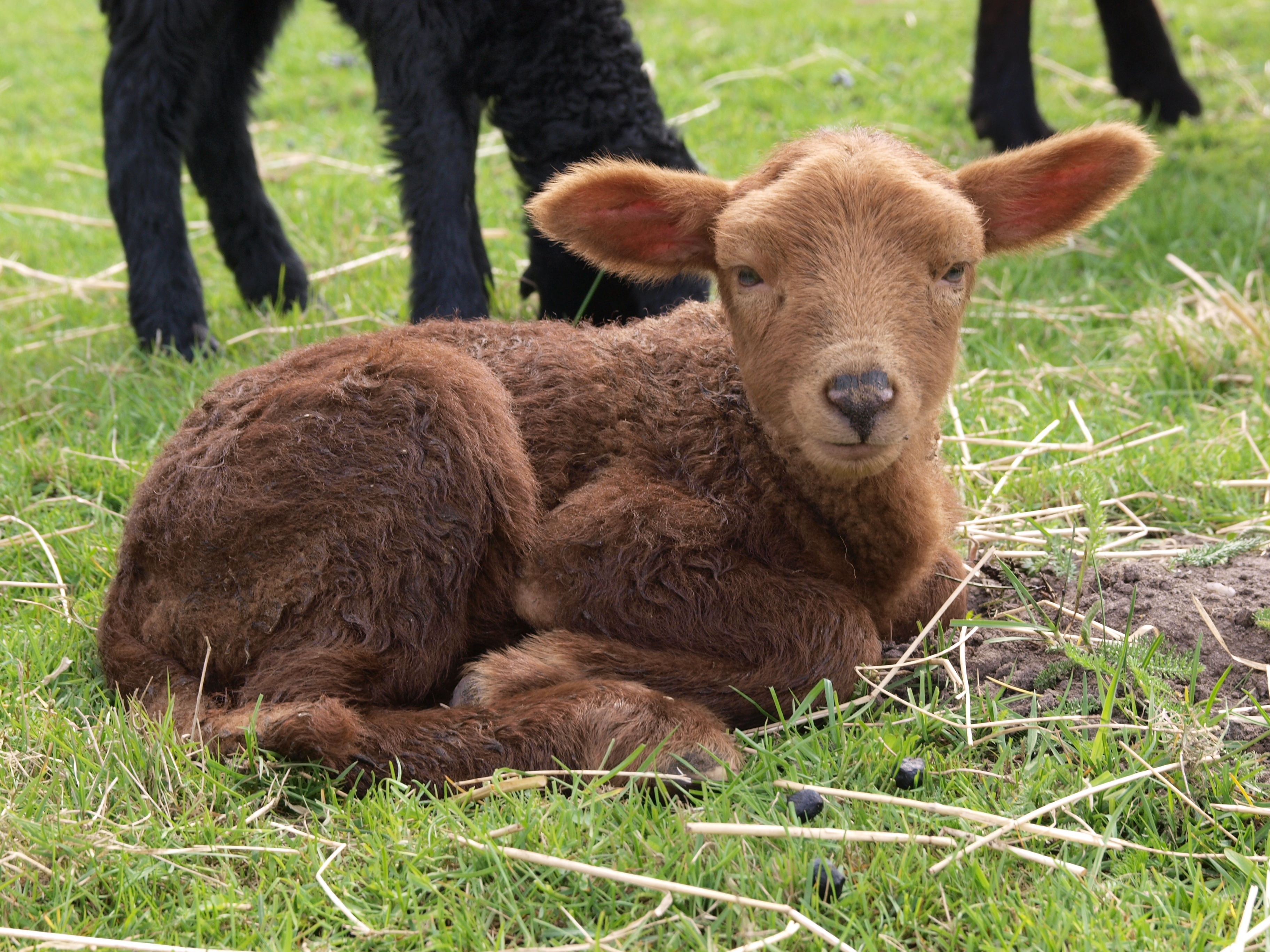 Resting Coburg Fuchsschaf lamb 4 days old.